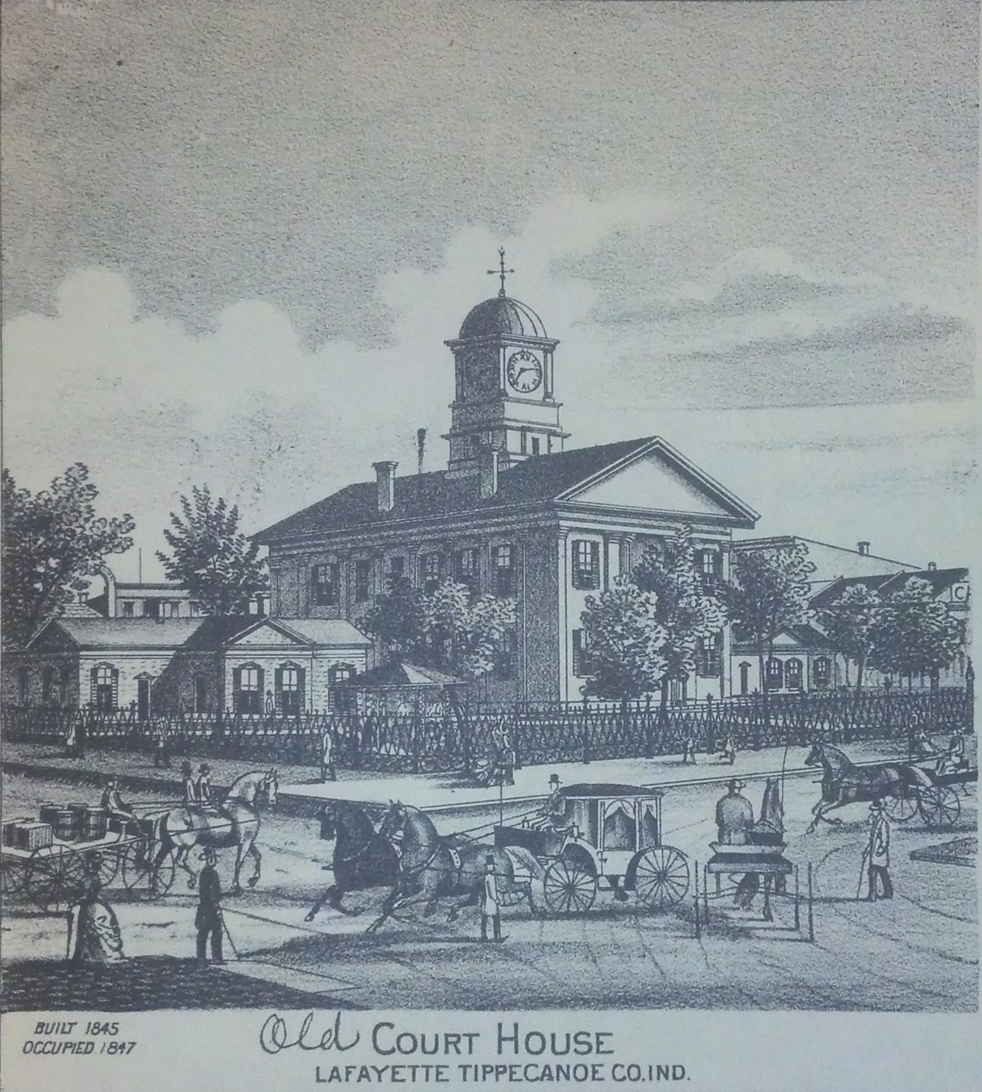 Drawing of the old courthouse in Lafayette, Tippecanoe County, Indiana, from an 1878 atlas of the county. This building was constructed in 1845 and was replaced by the current courthouse which was built from 1881 to 1884.